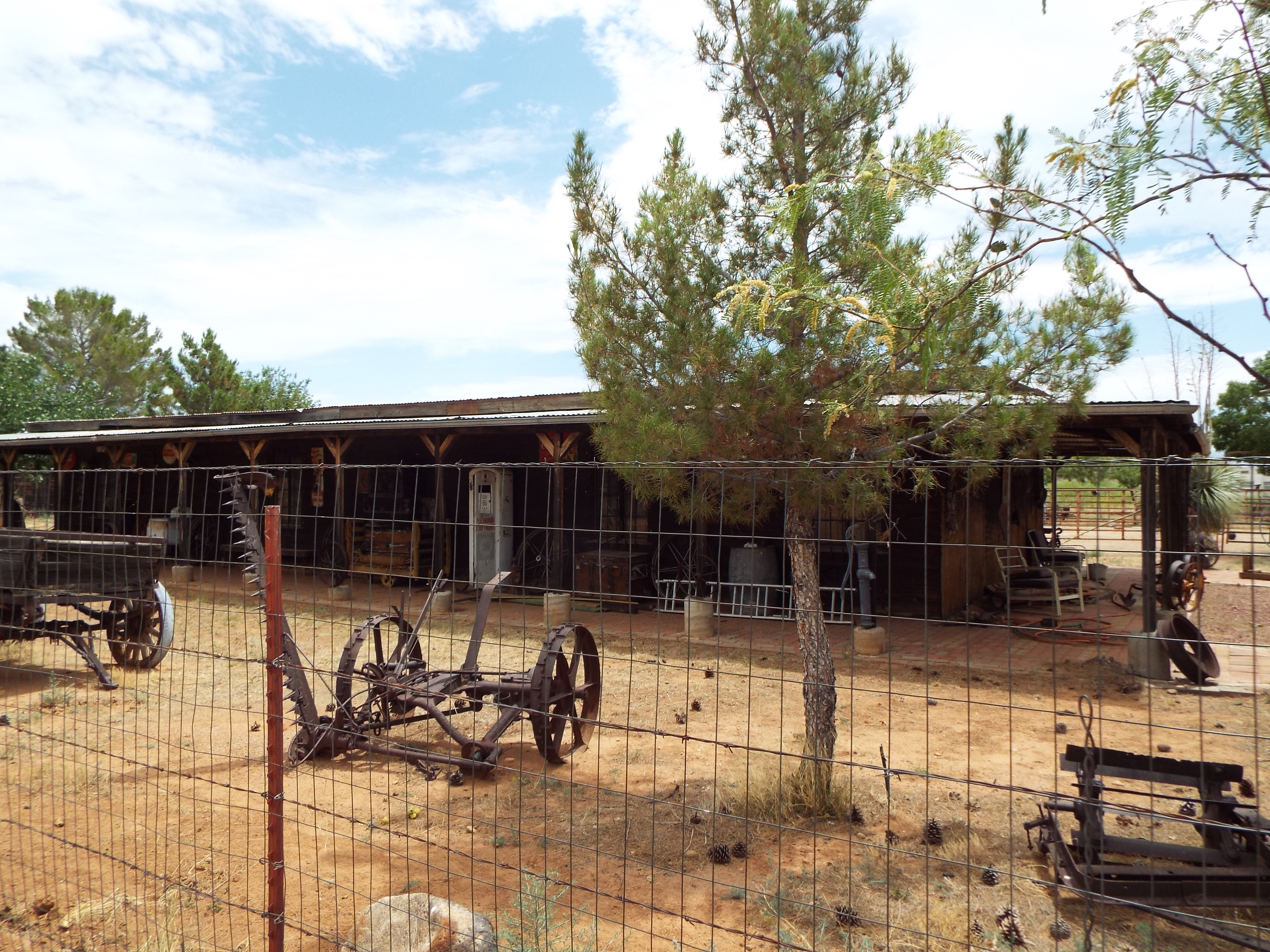 Old ranch house in the Ghost Town of Pearce, Arizona